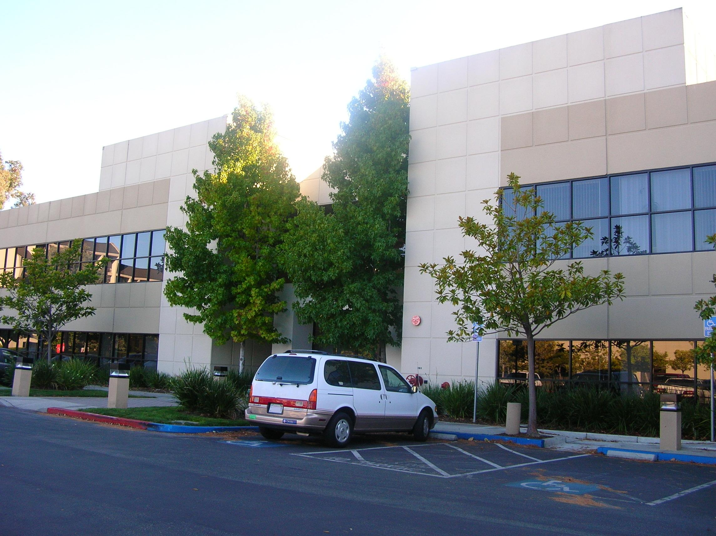 393 Vintage Park Drive in Foster City, California. SolarCity is headquartered in this building in Suite 140.